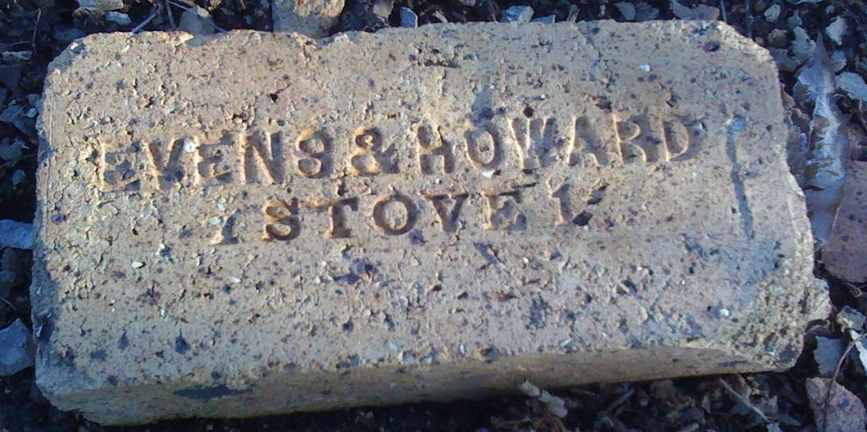 Photograph of a Fire brick made by Evens & Howard Fire Brick Co.. Found at the Joliet Iron Works ruins park in Joliet, Illinois. Originally marked as Fair use, but as the manufacturing stamp is text only/non-creative, it is not eligible for copyright.